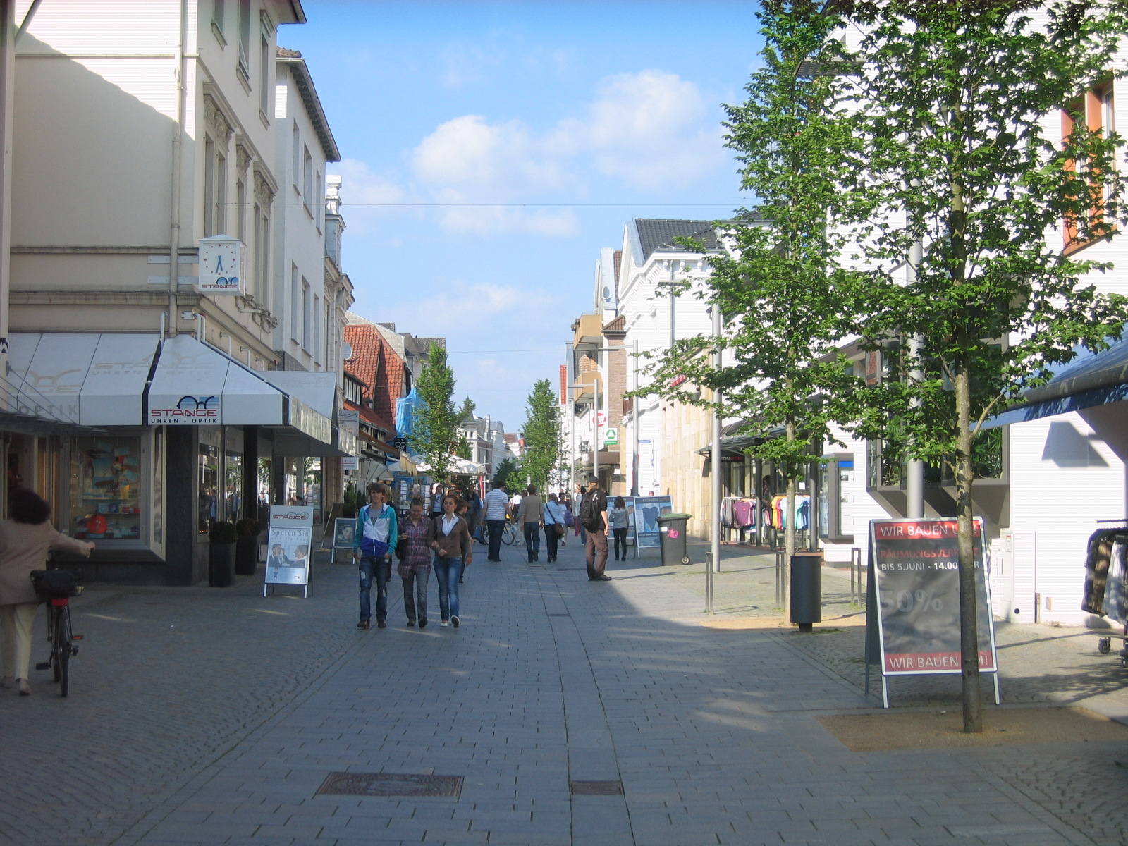 in Bünde, District of Herford, North Rhine-Westphalia, Germany.